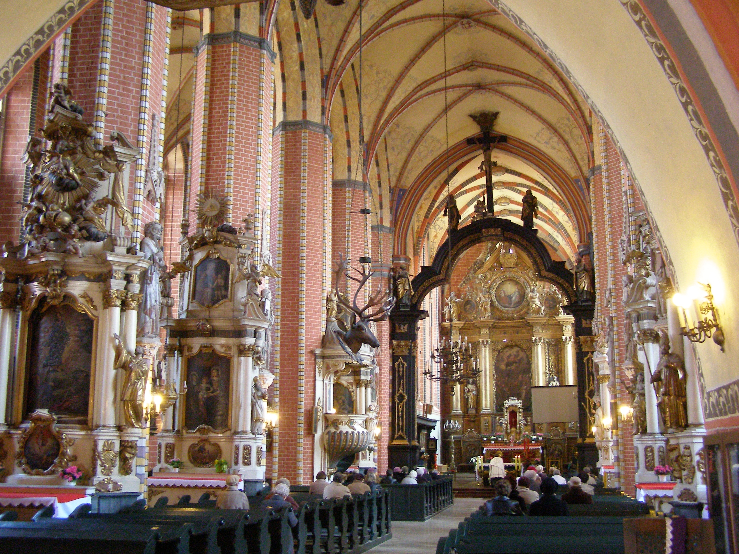 Chełmno - church of the Assumption of Virgin Mary